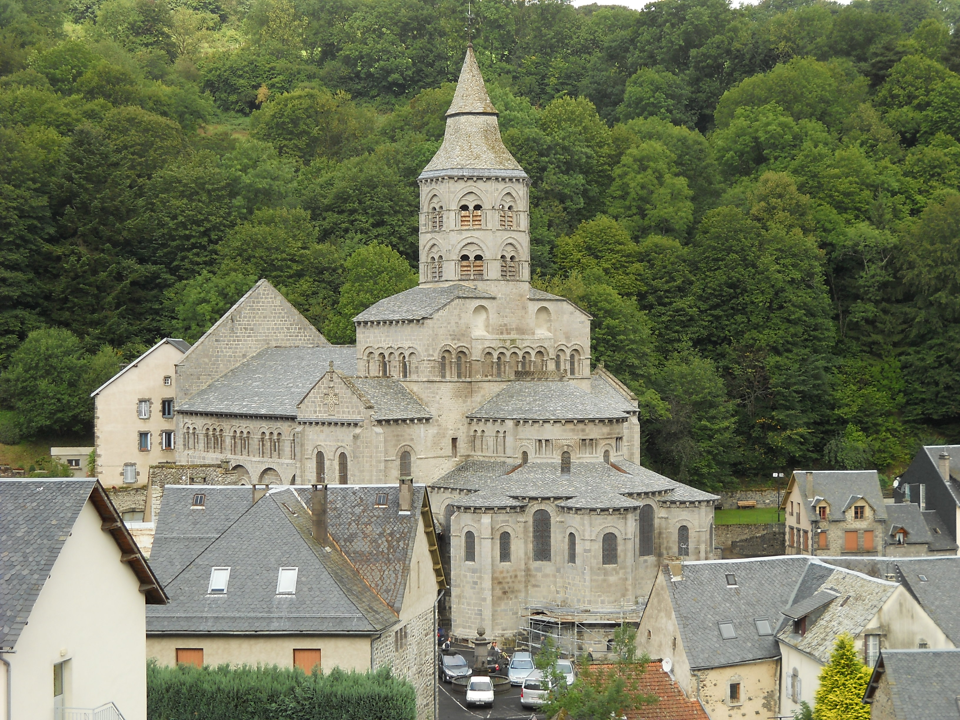 Basilica Notre-Dame d'Orcival, Puy-de-Dôme, France